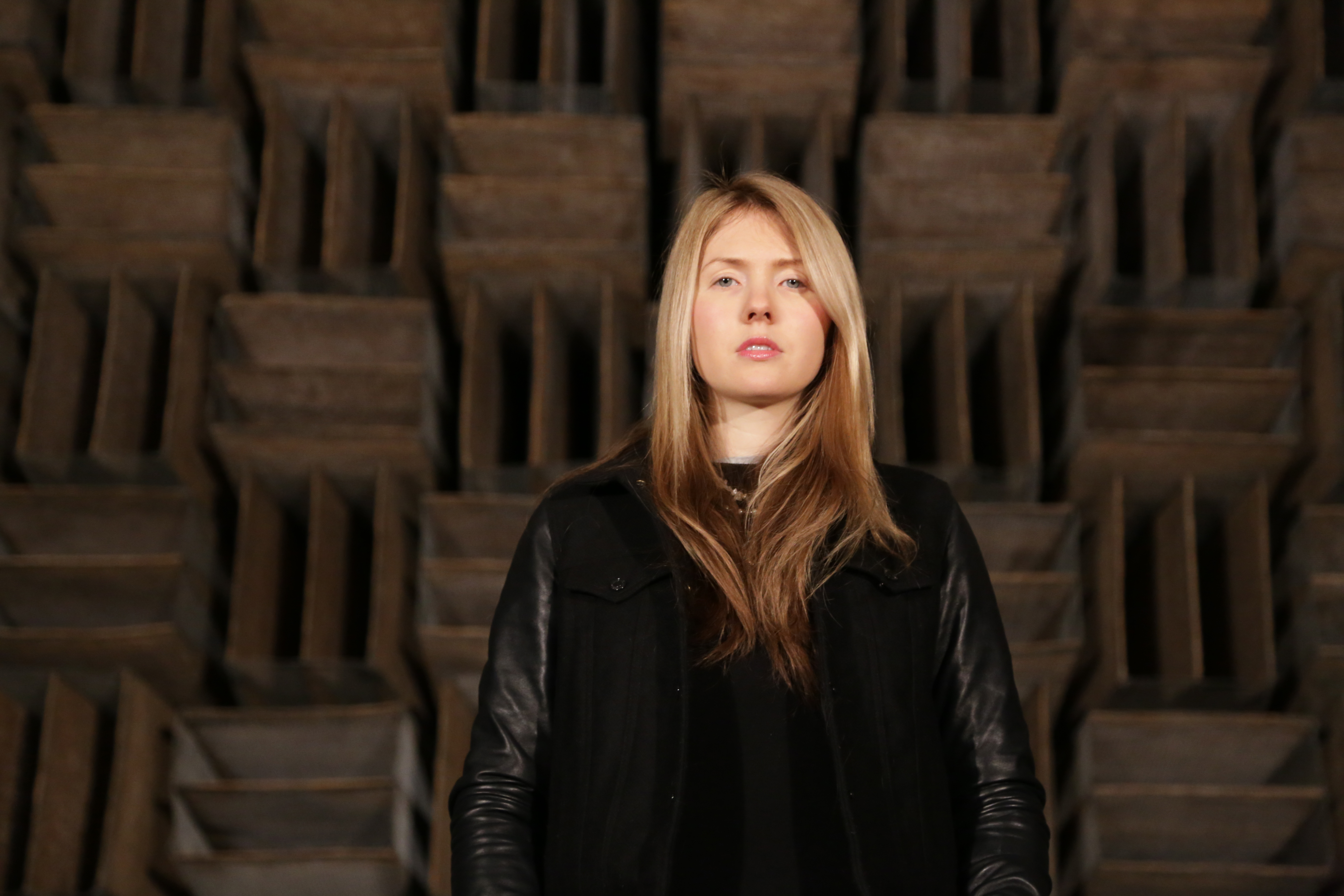 Beatie Wolfe in the Bell Labs Anechoic Chamber